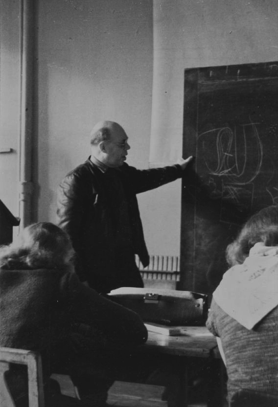 Photograph of the Finnish designer Arttu Brummer (1891–1951) giving a lecture at the University of Arts and Design, Helsinki.